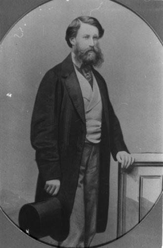 George Vesey Stewart, first mayor of the new borough of Tauranga